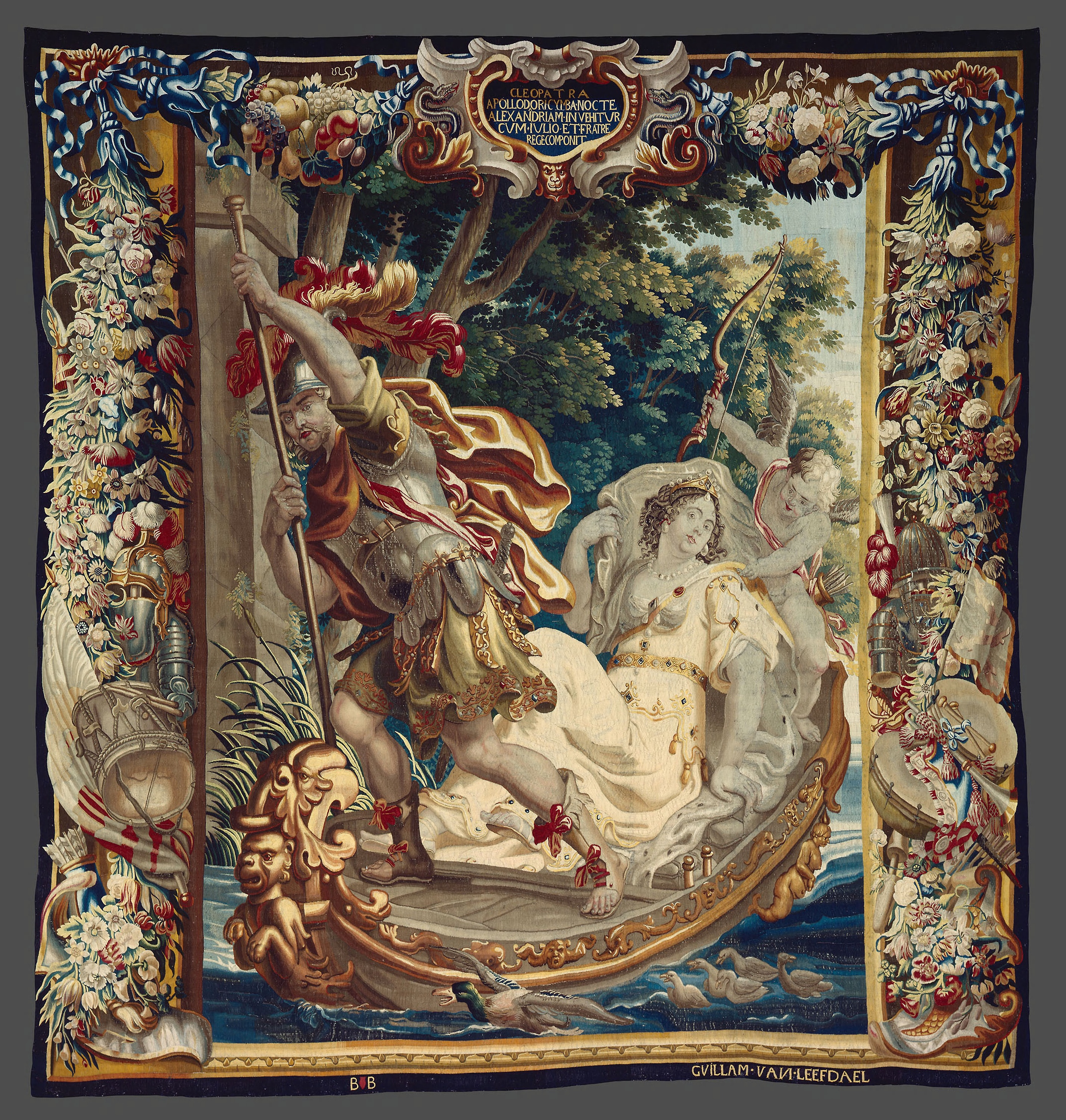 Cleopatra Asked to Pay Tribute to Rome from the Story of Caesar and Cleopatra by Justus van Egmont